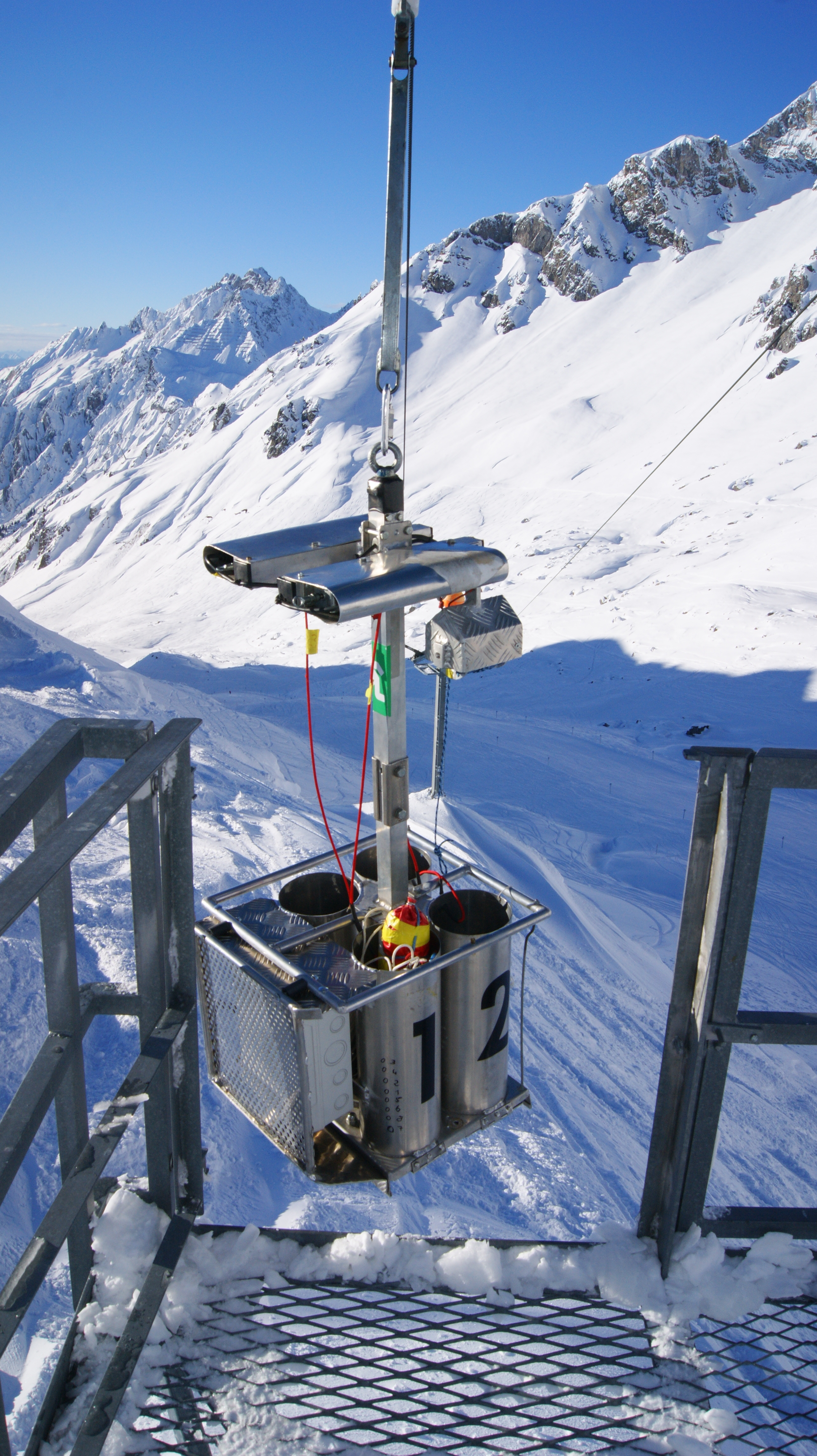 Avalanche blasting ropeway Valfagehr in Rauz, Kloesterle, Voralberg, Austria. Automatic ejection device for explosives.